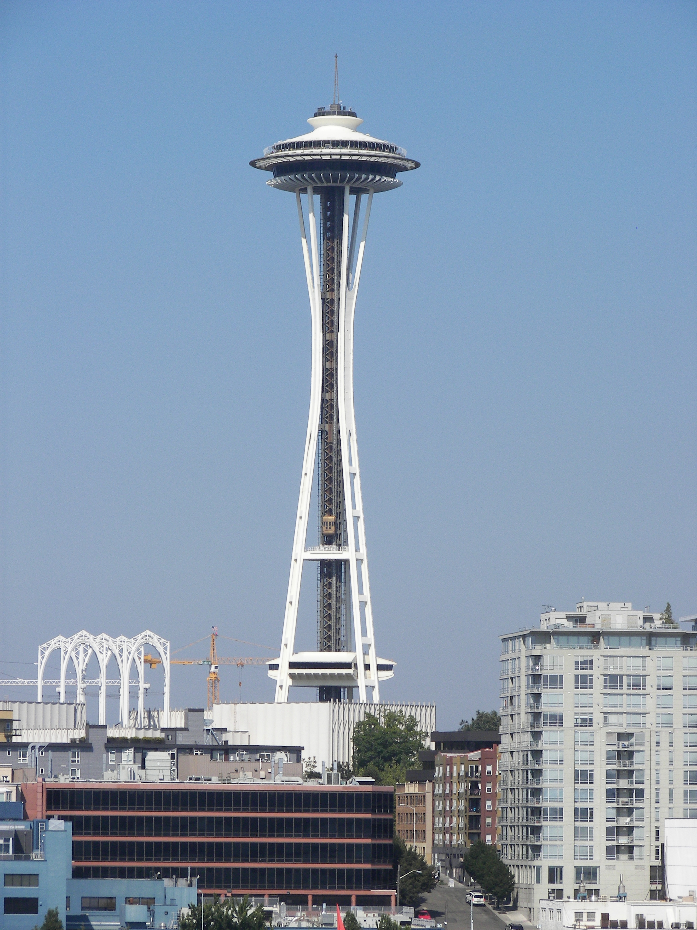 Space Needle from a ship near Pier 66, Seattle.